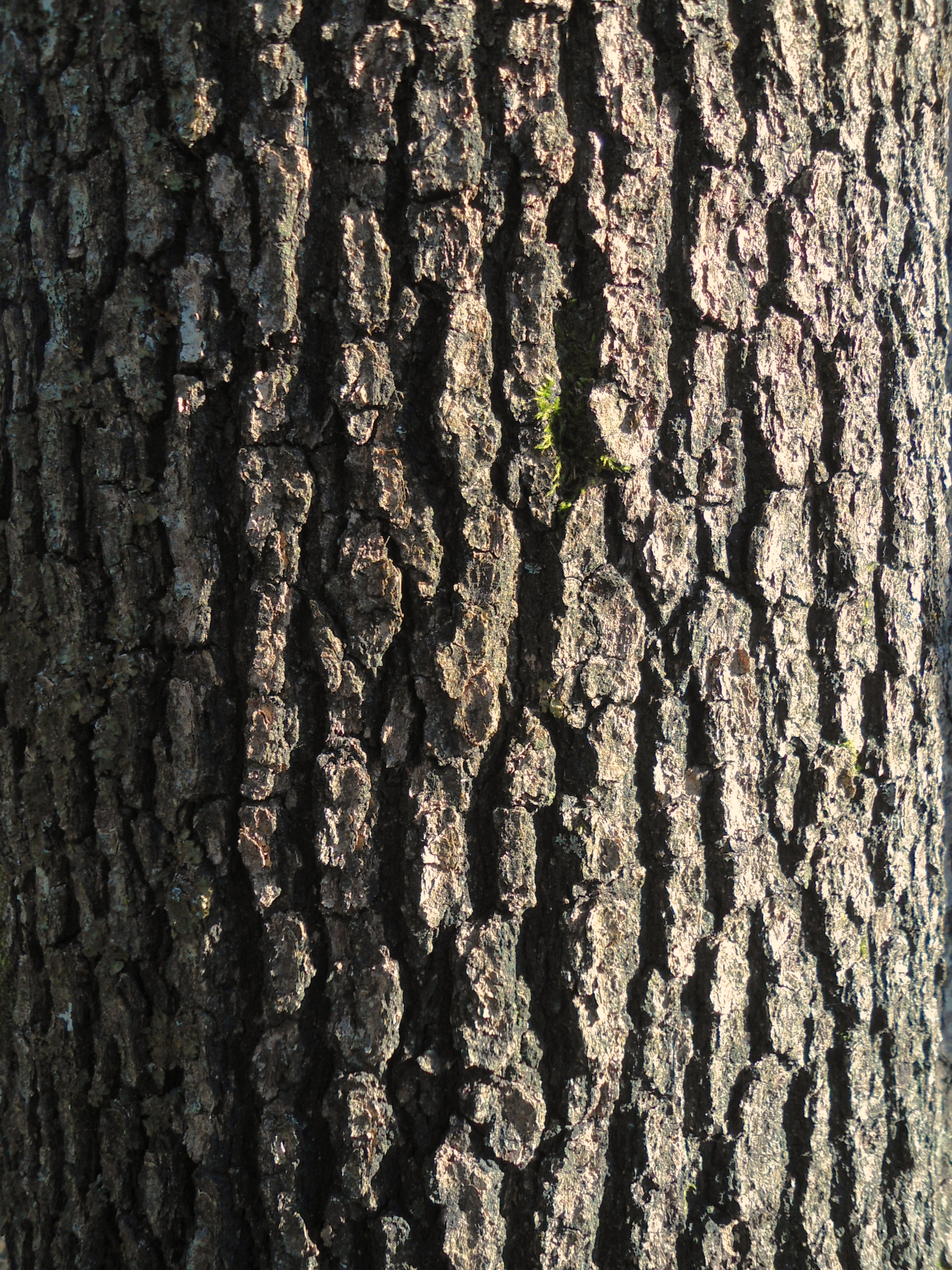 The bark of blagùn (Quercus frainetto) - oak of visible age approx. 50-70 years.